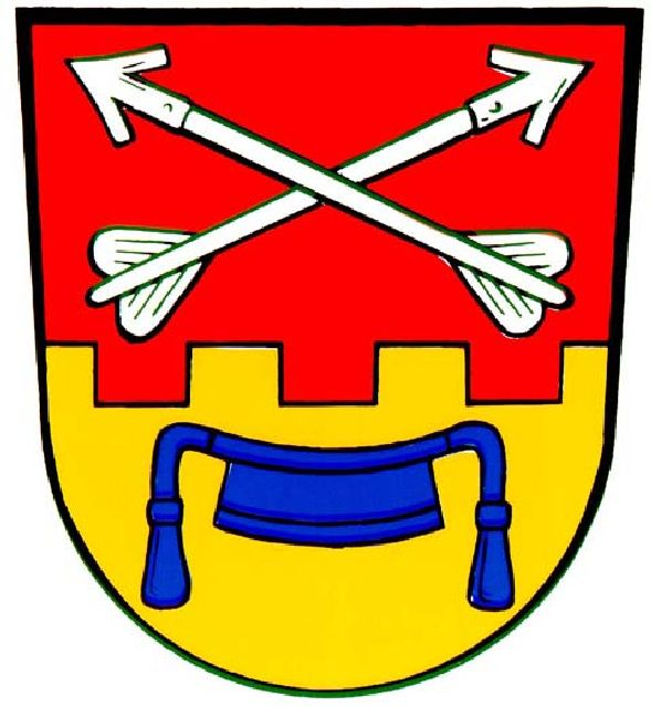 Coat of Arms of Neuendorf